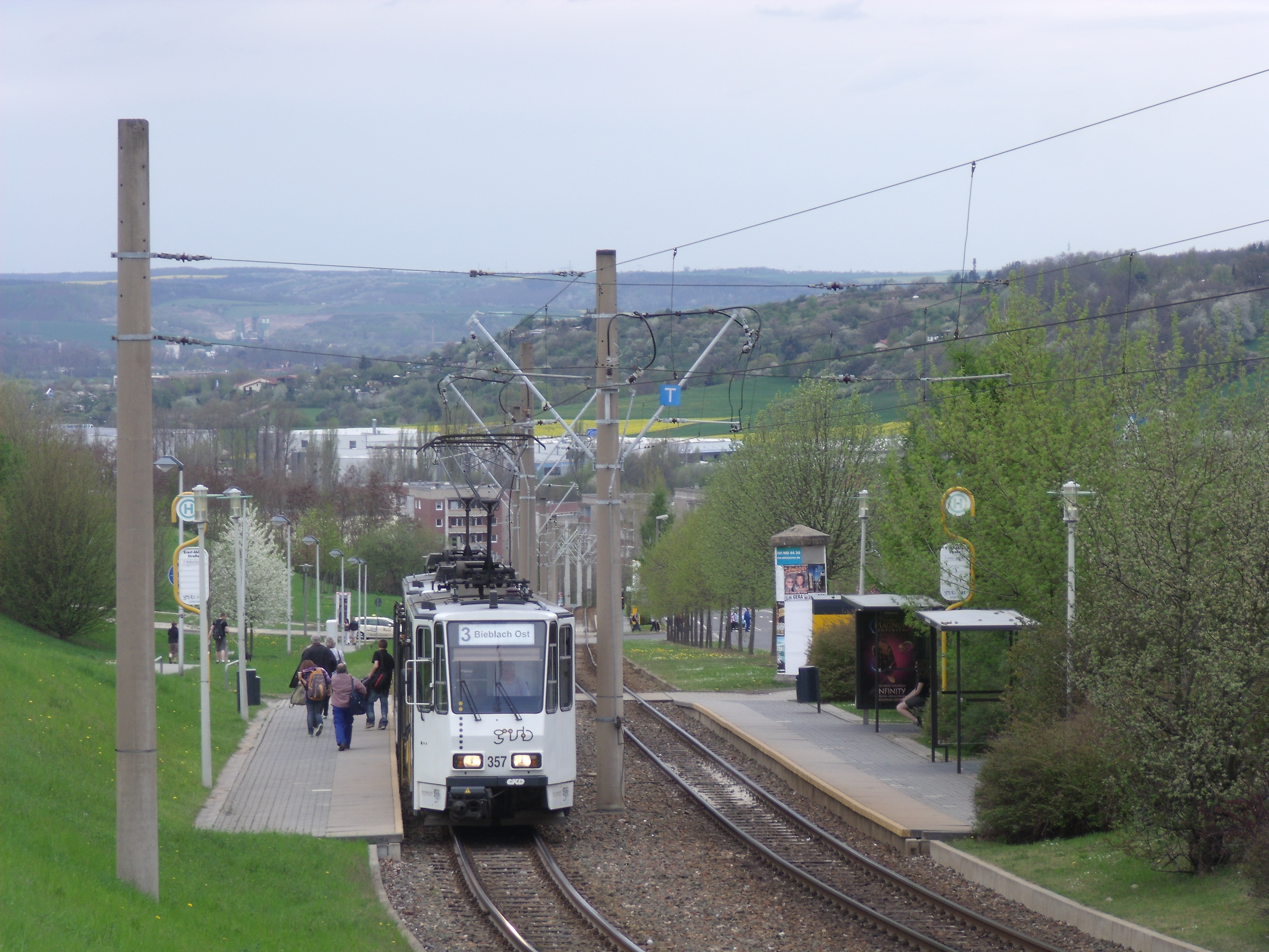 Tramway at Ernst-Abbe-Straße tram stop in Bieblach-Ost, Gera, Germany, in April 2012